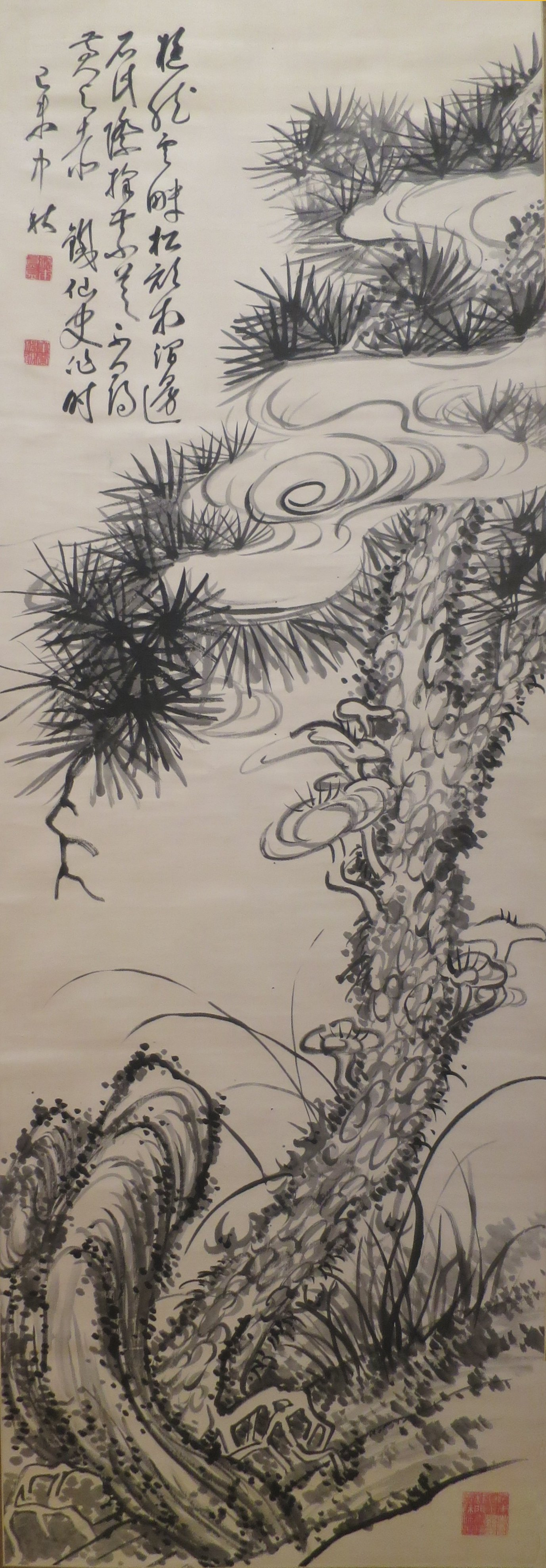 Old Pine, painting by Fujimoto Tesseki (1816-1863), Honolulu Museum of Art, accession 13188.1